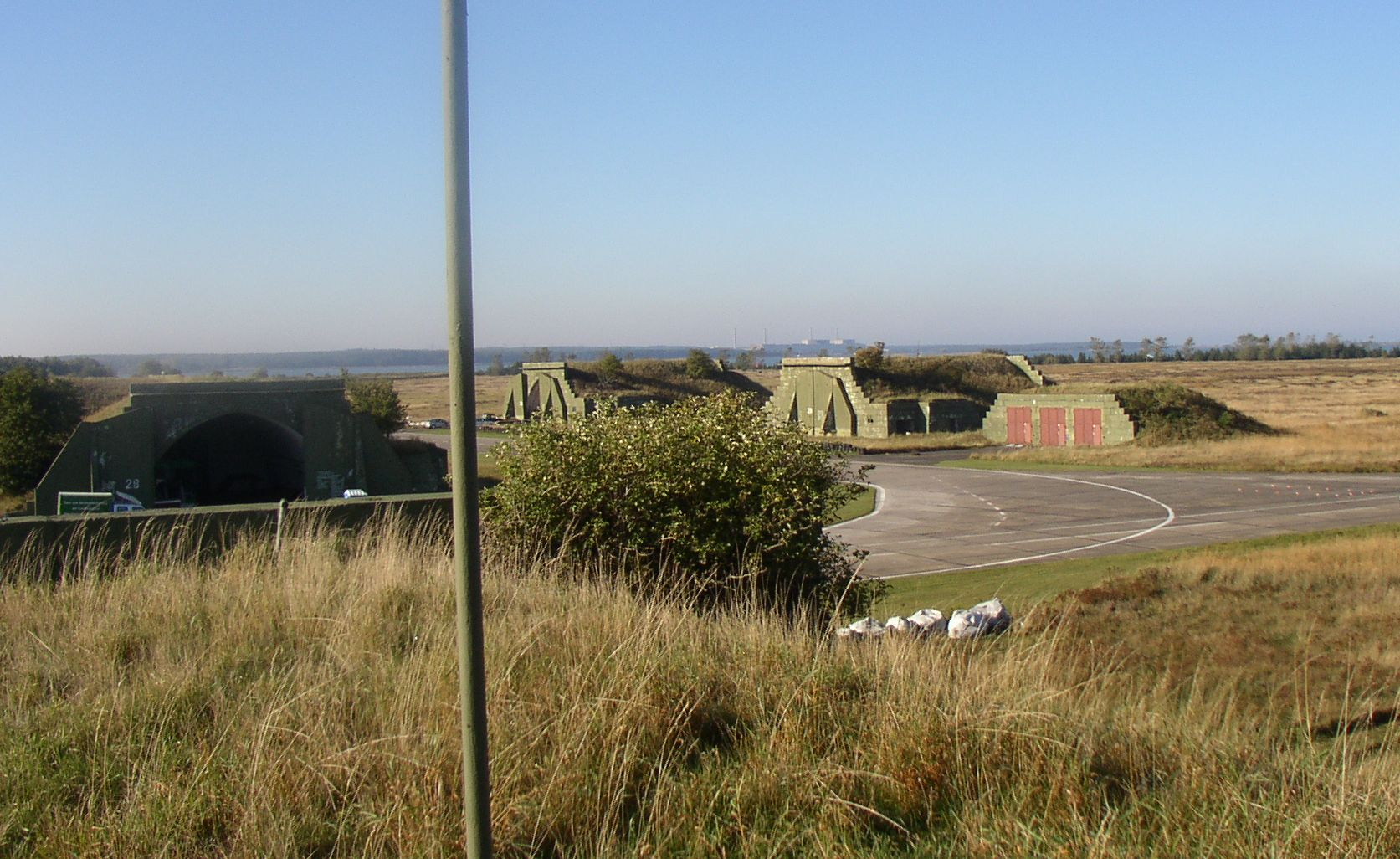 View from one airport shelter on the airport Peenemünde to some others and in direction to the nuclear power plant Greifswald in Lubmin